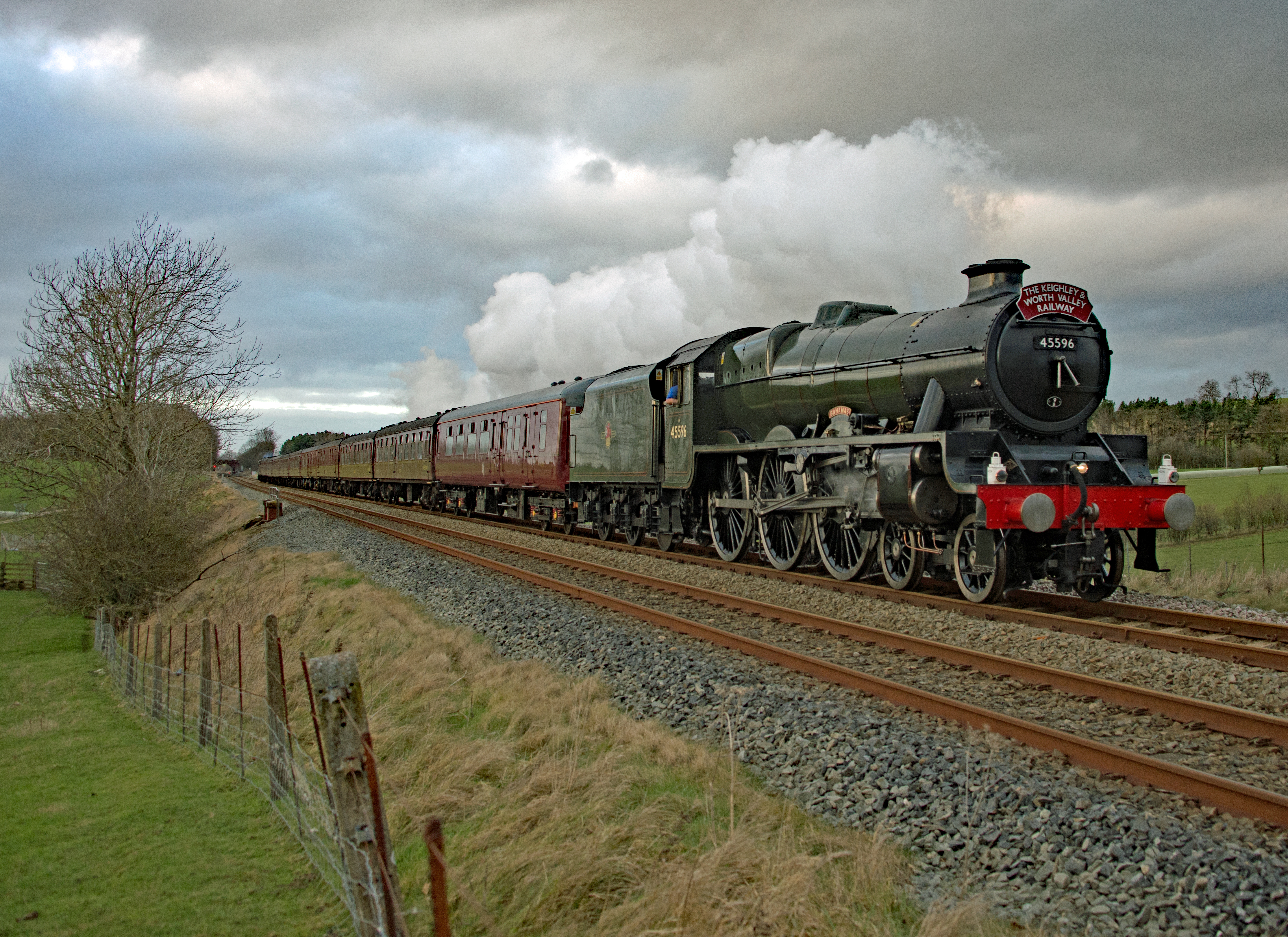 The restored Jubilee approaching Long Marton on its return journey south along the Settle and Carlisle Railway.